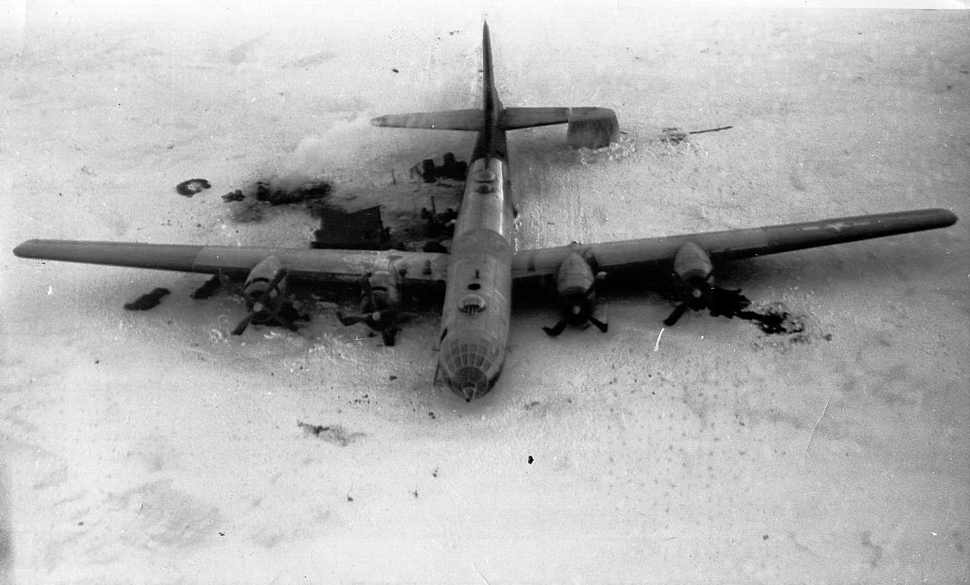 Photo of the B-29 "Kee Bird"; crashed in Greenland in February 1947.